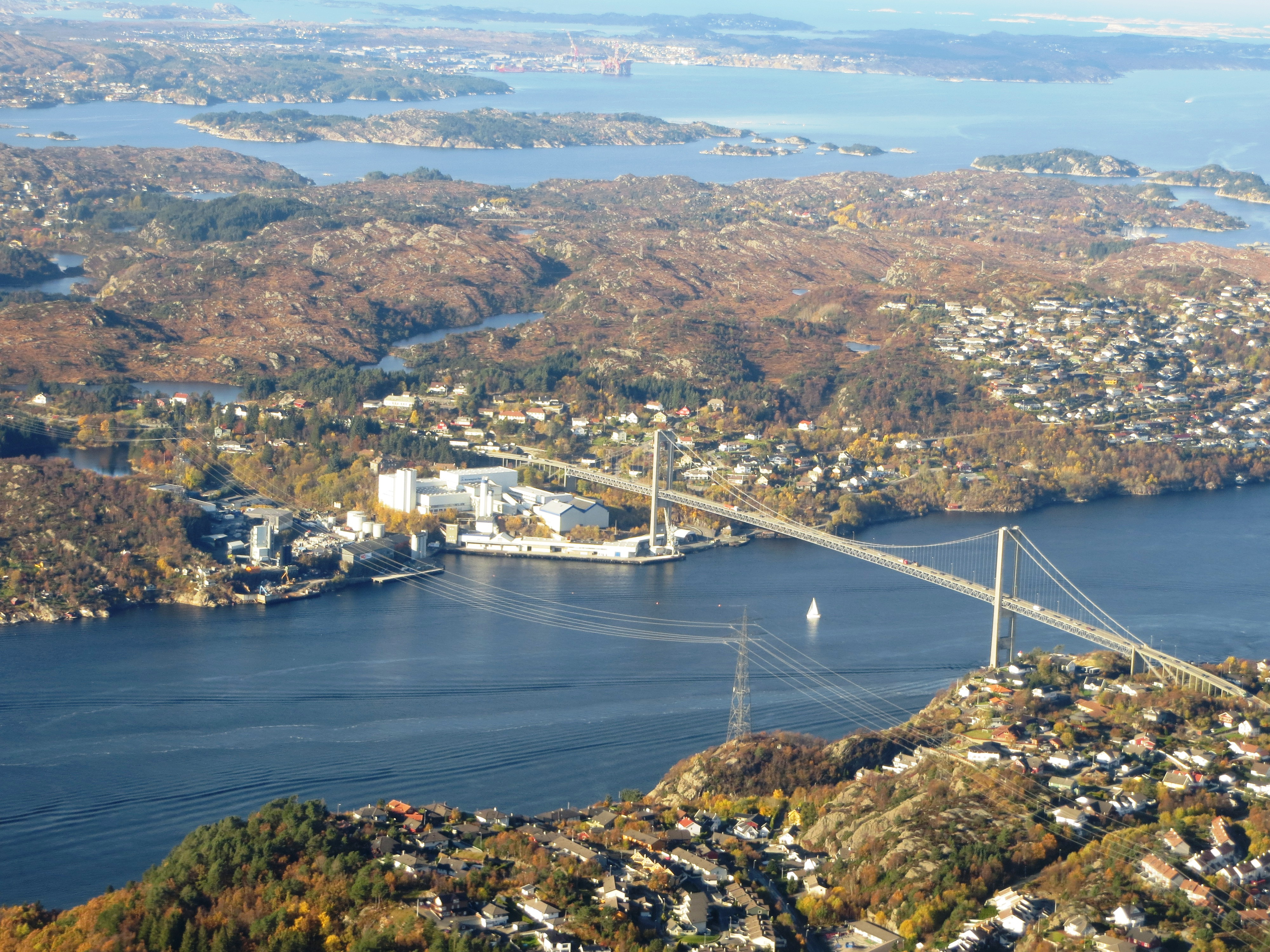 Knarrevik /Sotra bridge, island Lillesotra, in eastern Fjell - just west of Bergen, Norway